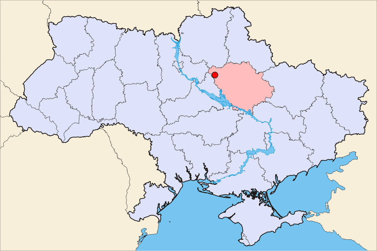 Description = Hrebinka geographical position Source = own work, Skluesener Date = 21.01.2006 Author = Skluesener Credits = Colours chosen according to a map of steschke